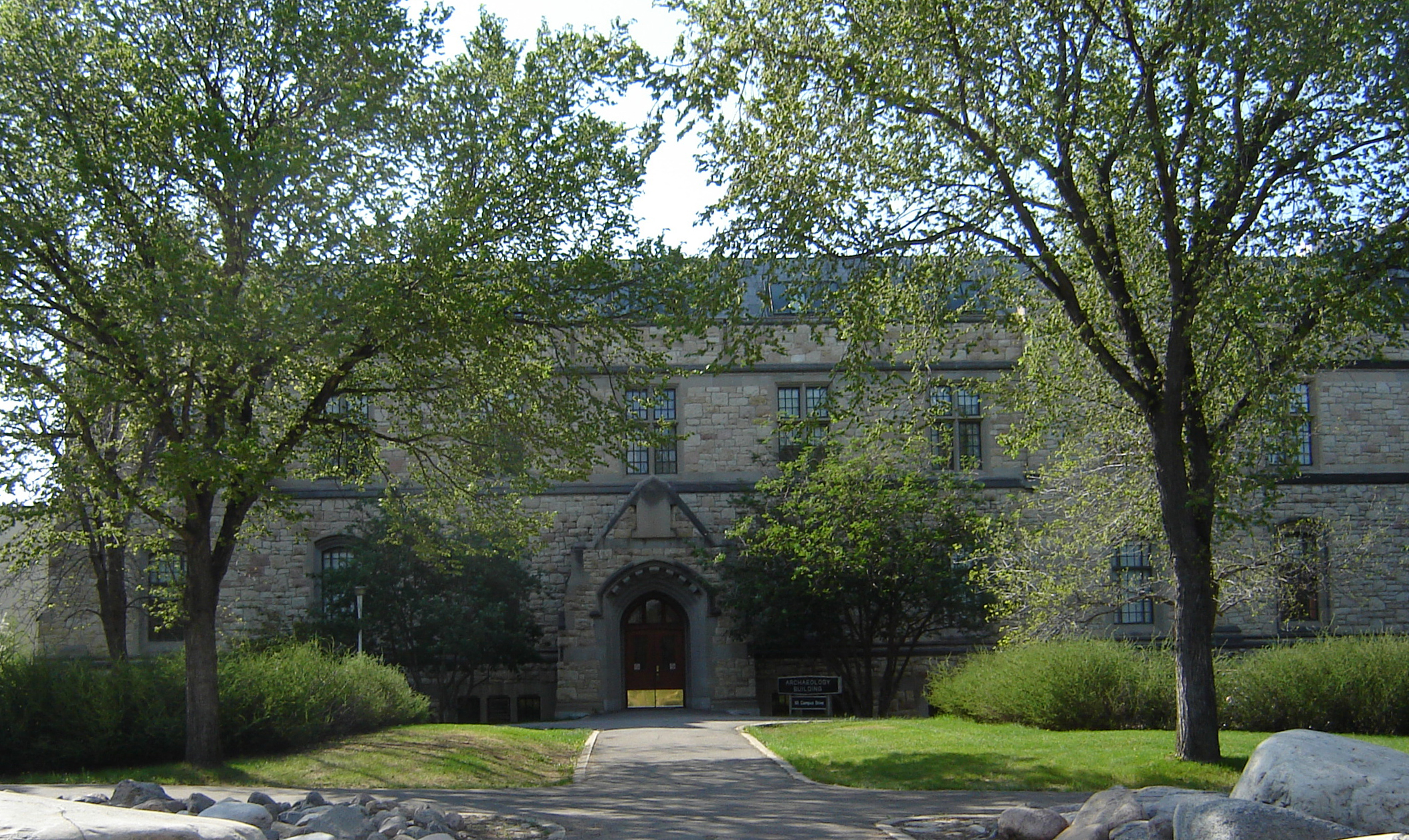 Archaeology Building Wikipedia:University of Saskatchewan Wikipedia:Saskatoon Wikipedia:Saskatchewan Wikipedia:Canada